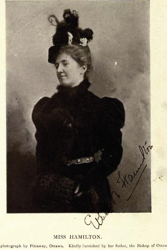 Miss Ethel Mary Hamilton daughter of Right Rev Charles Hamilton (Bishop)